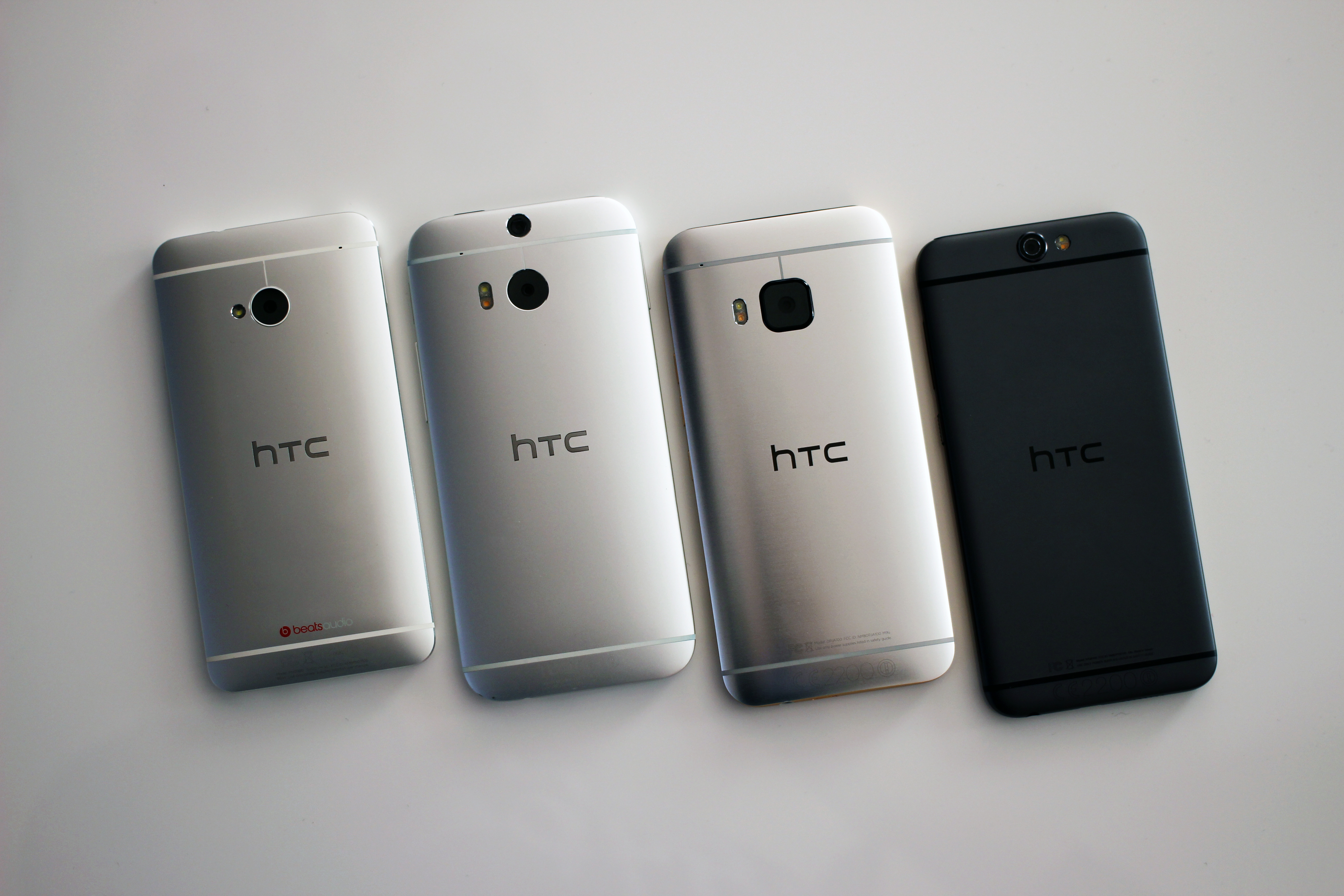 Evolution of the HTC One: M7, M8, M9, and A9